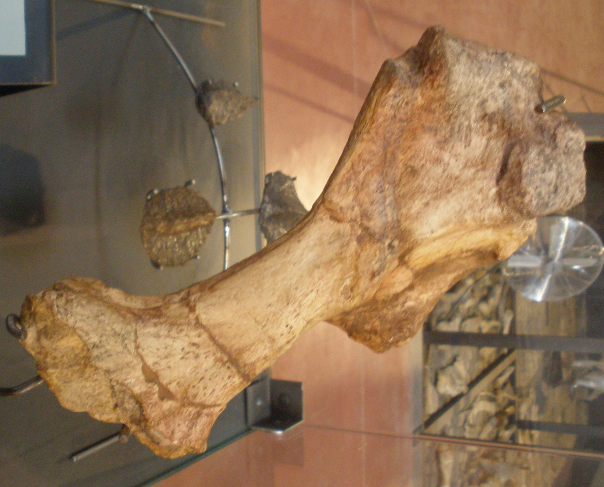 fossil humerus of Struthiosaurus occitanicus, an extinct nodosaur